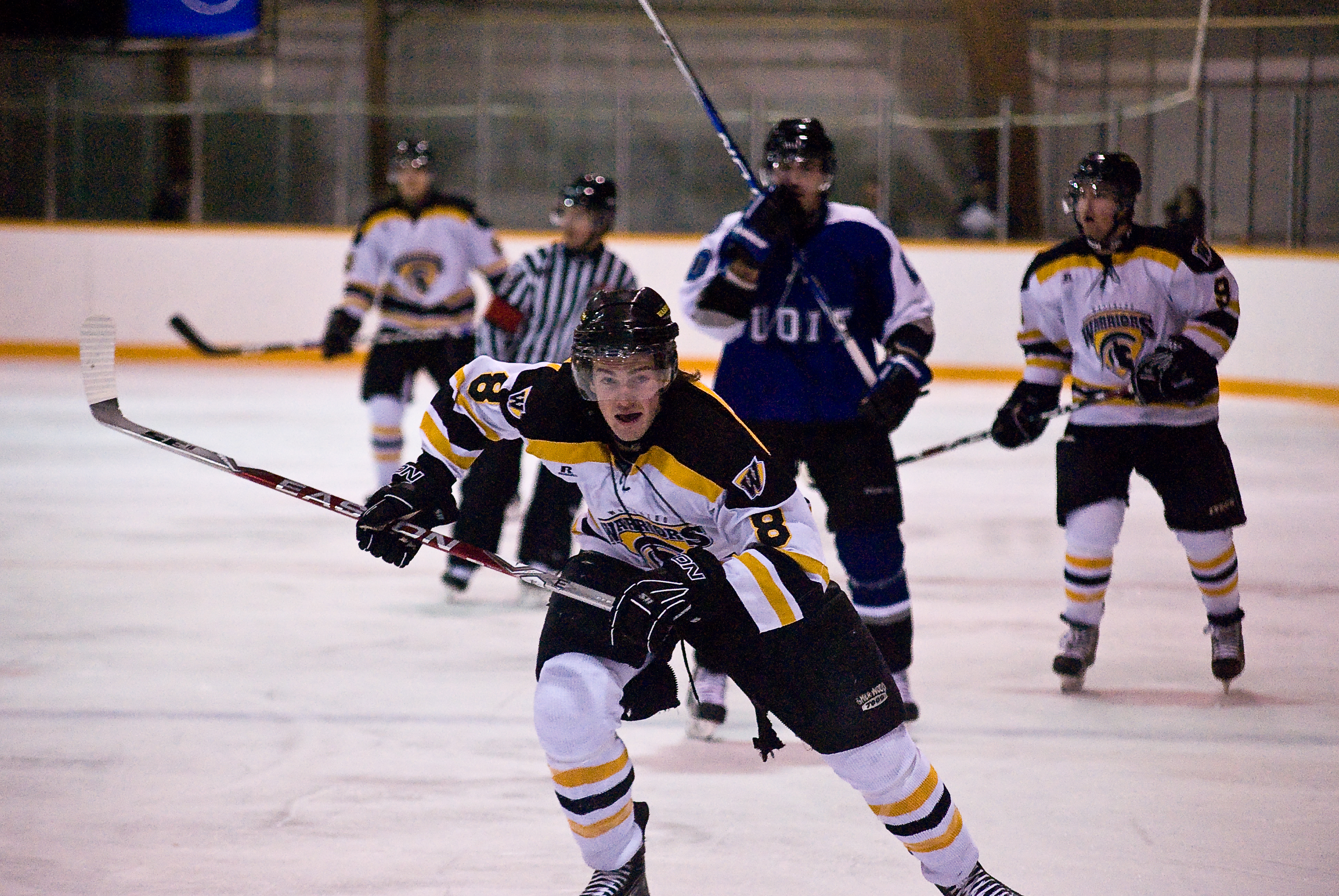 I shot a warriors hockey game for Imprint. Bit of a change for me. I haven't seriously shot indoor sports since highschool, and this was only my second ever live hockey game.